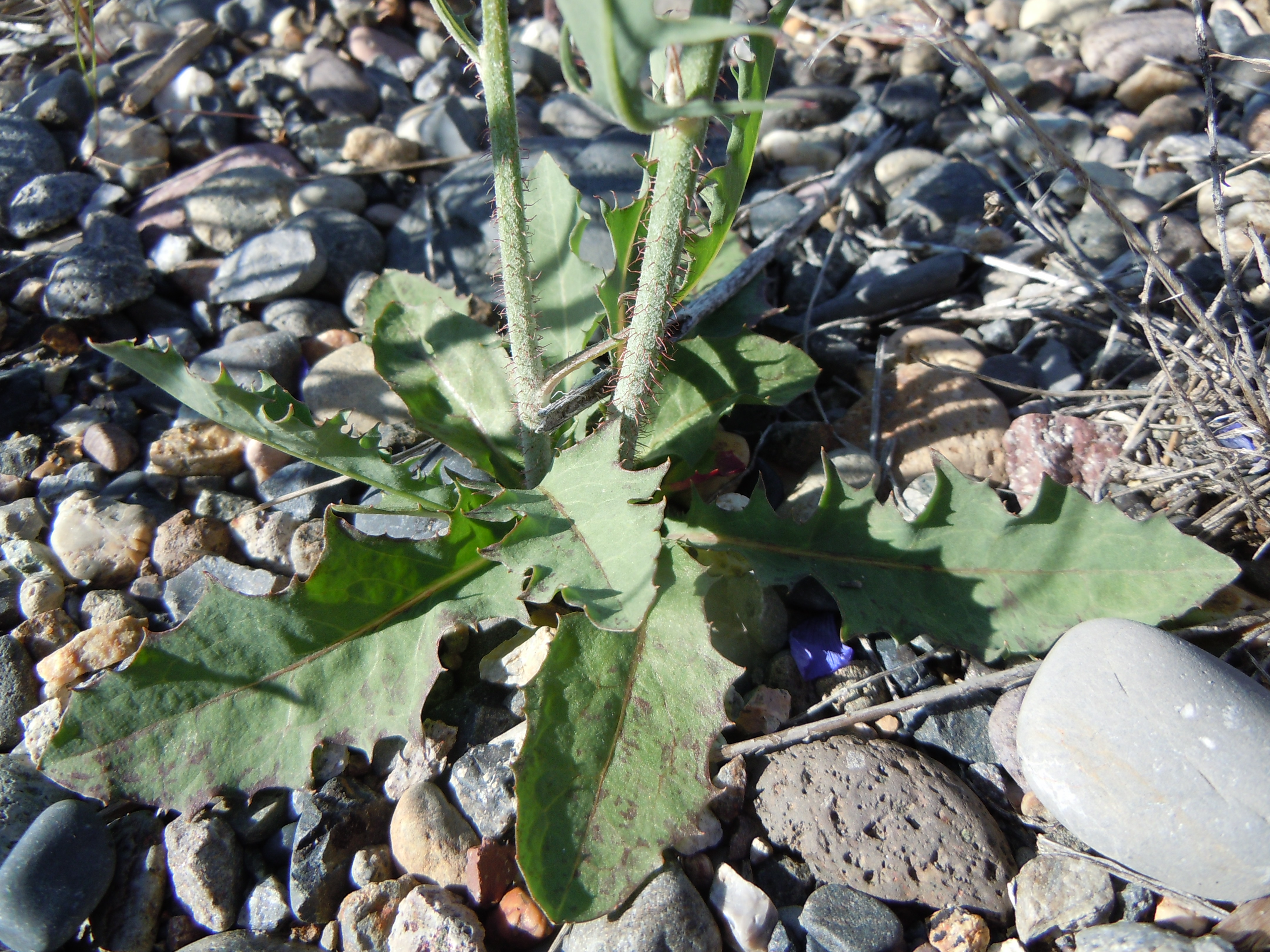 This species is very uncommon roadside and has yet to be seen in undisturbed sagebrush steppe.